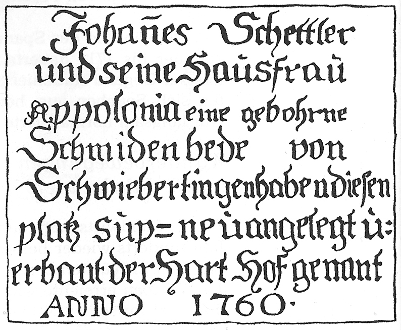 Gründungsinschrift des Harthofs (1760)